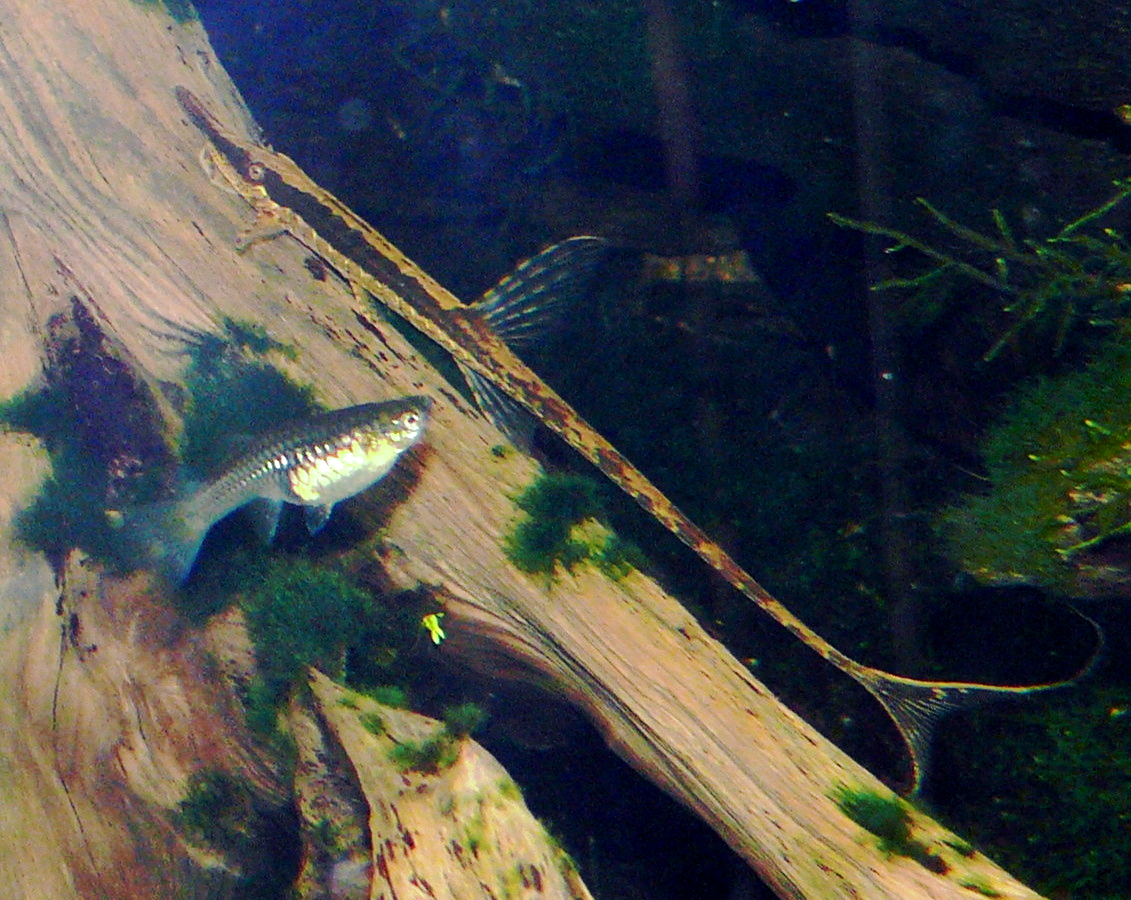 Farlowella acus and a fish in the family Poeciliidae (female specimen, possibly Poecilia reticulata)